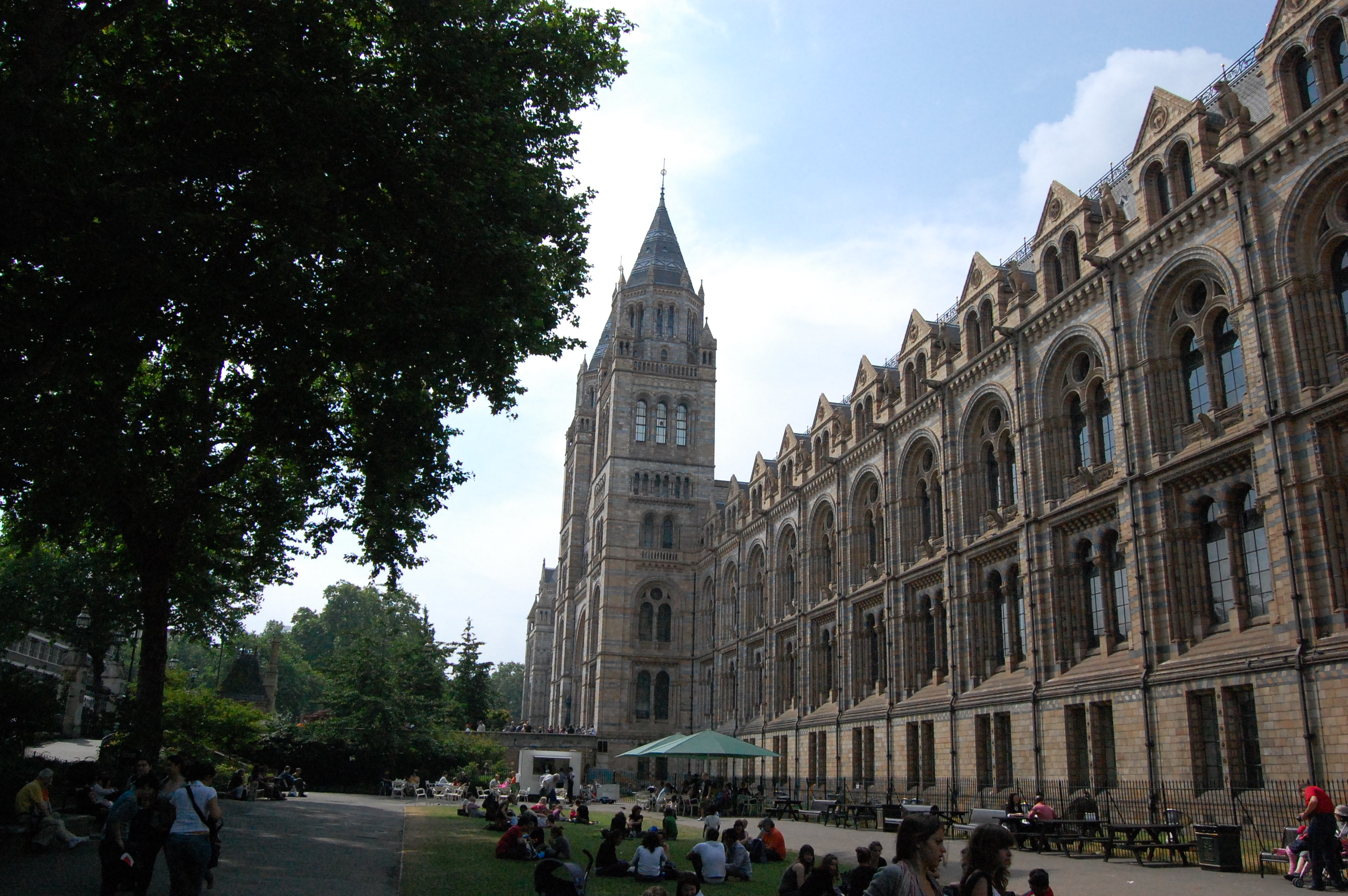 Outside Natural History Museum, on Cromwell Road, South Kensigton, London, England